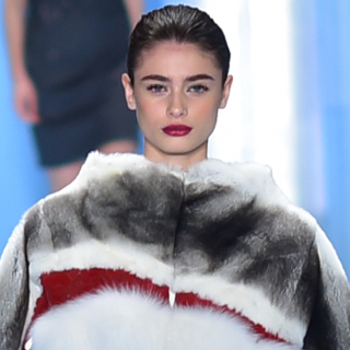 American model Taylor Marie Hill on the show Taylor Hill Carolina Herrera FW15